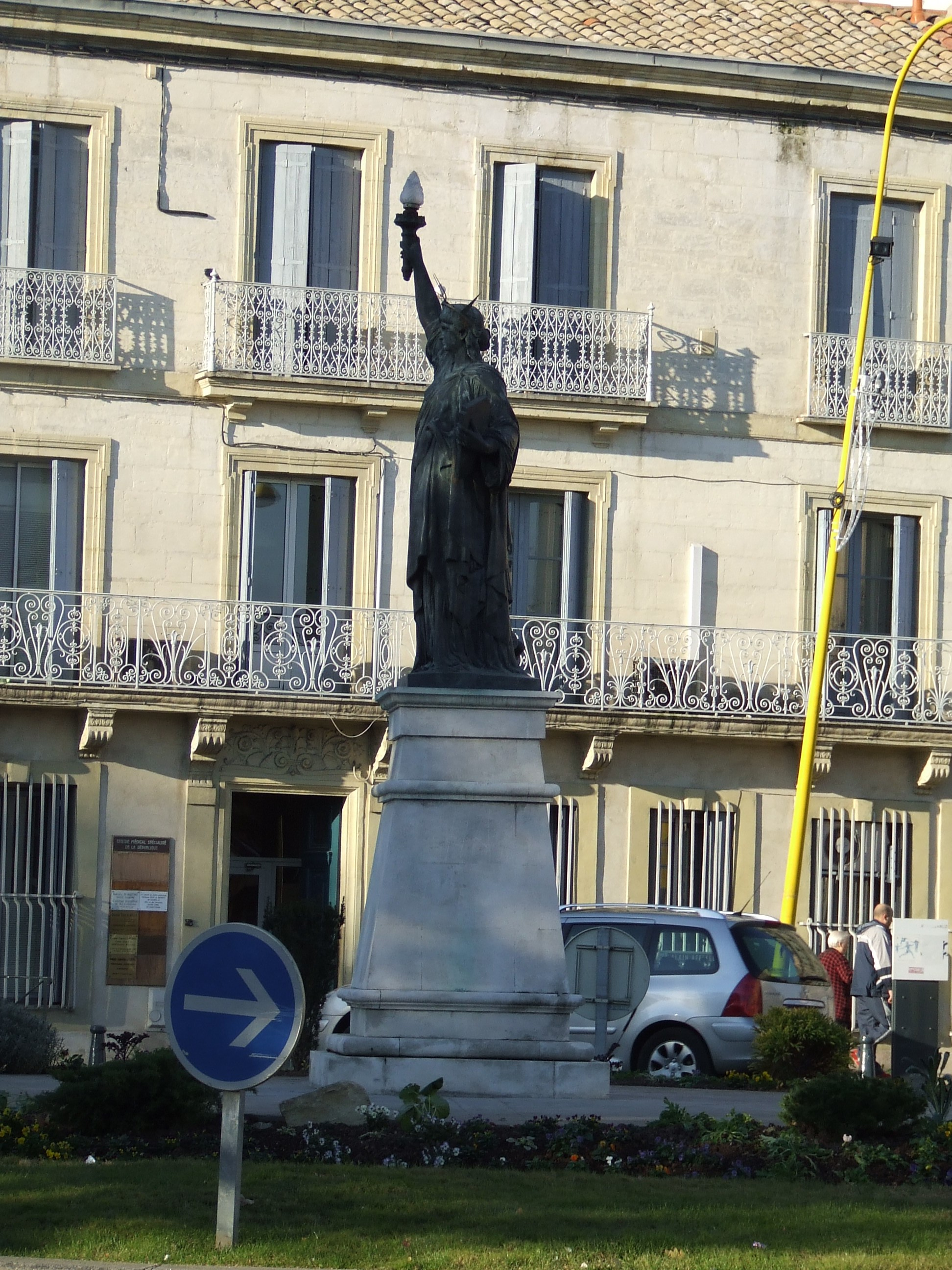 photography of small Liberty Statue's reproduction in Lunel, France.